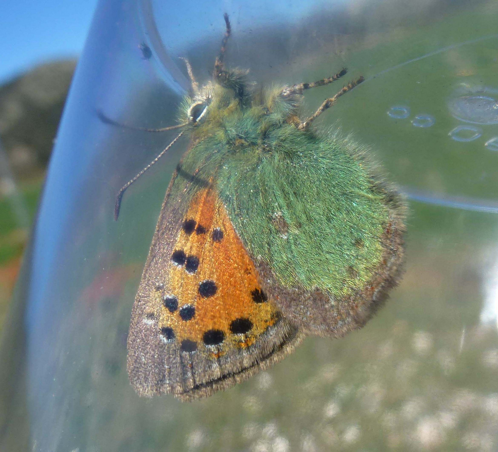 Really a Copper, not a Hairstreak. Saw only this one. Andalucia Spain, late April, 2012.